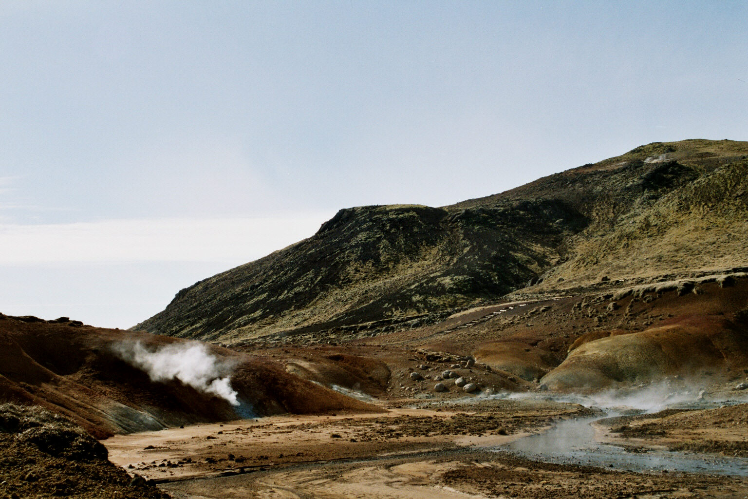 Krýsuvík, Iceland, GNU-FDL I took the photo my-self in april 2004, no other copyrights involved. Reykholt 08:53, 23 May 2004 (UTC)